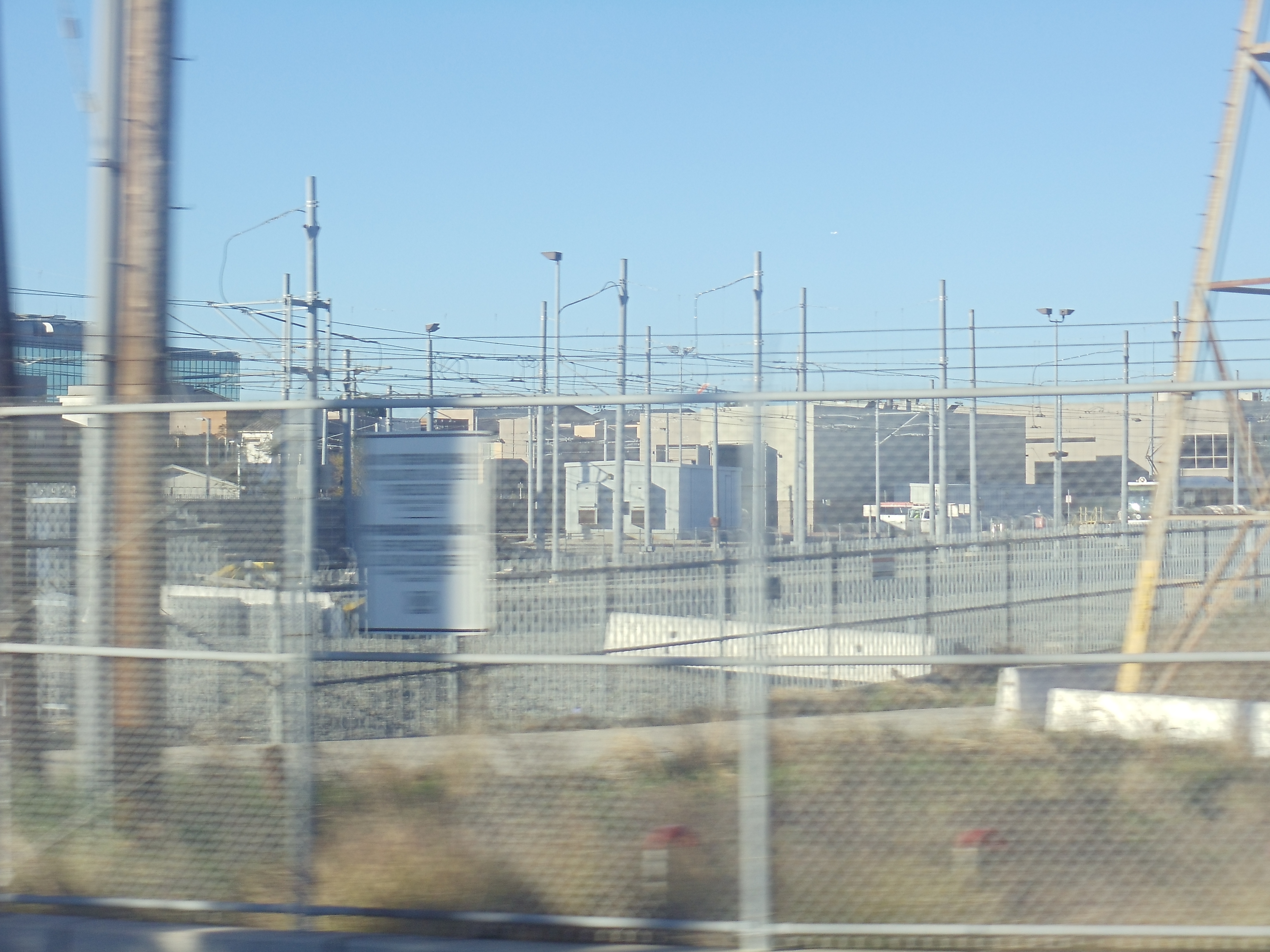 Metro Green Line Yard- Division 22 (Lanwdale). The Green Line has the smallest rail yard of all the Metro Rail Lines.